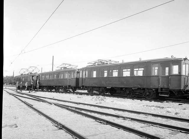 Østensjøbanen Class A trams in Oslo, Norway